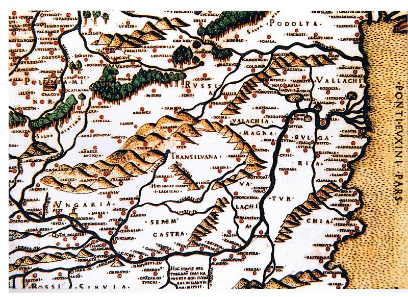 Marco Beneventano and Bernard Wapowski Tabula Moderna Polonie, Ungarie, Boemie, Germanie, Lithuanie 1507: Monumenta Poloniae Cartographica.